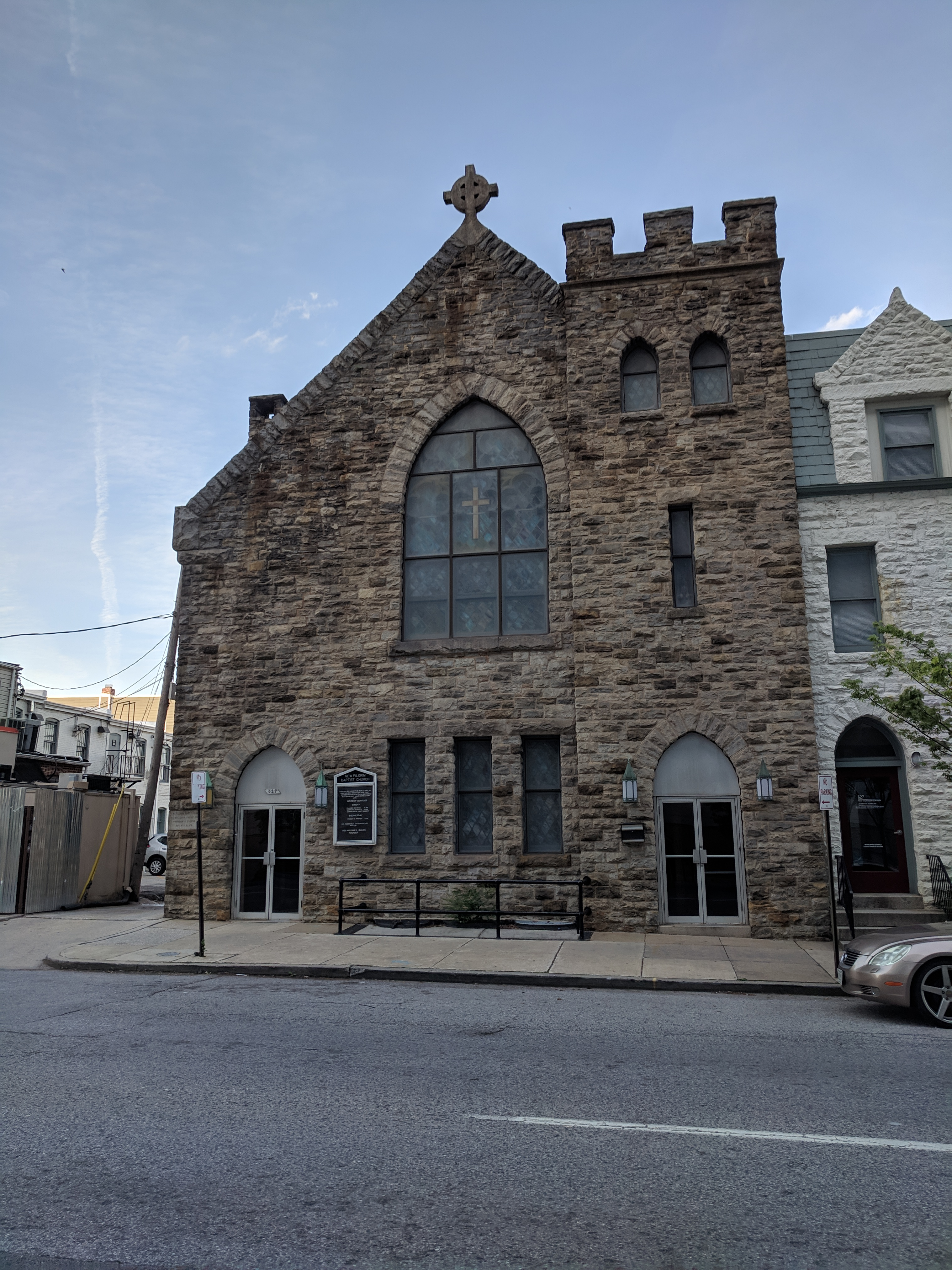 New Pilgrim Baptist Church on North Washington Street, a black Baptist church in the Middle East neighborhood of East Baltimore. The building was previously used as the Mount Tabor Bohemian Methodist Church, one of the few Czech Protestant churches in Baltimore.